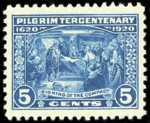 5 cent United States postage stamp issued 1920 to celebrate the tercentenary of the signing of the Mayflower Compact in 1620